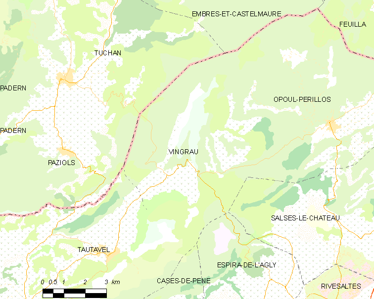 Map of French municipality